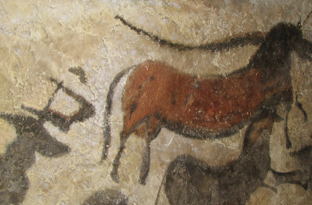 Cave painting from the Lascaux cave in The Anthropos Pavilion of The Moravian Museum, Brno, Czech Republic.